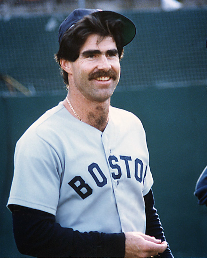 Scanned print from the only MLB game I've ever shot, to this point (2009). At this game: Wade Boggs, Roger Clemens, Jim Rice, Oil Can Boyd, Jose Canseco, Mark McGwire, Dusty Baker, Don Baylor, Bill Buckner, Tom Seaver, and more. Great teams.